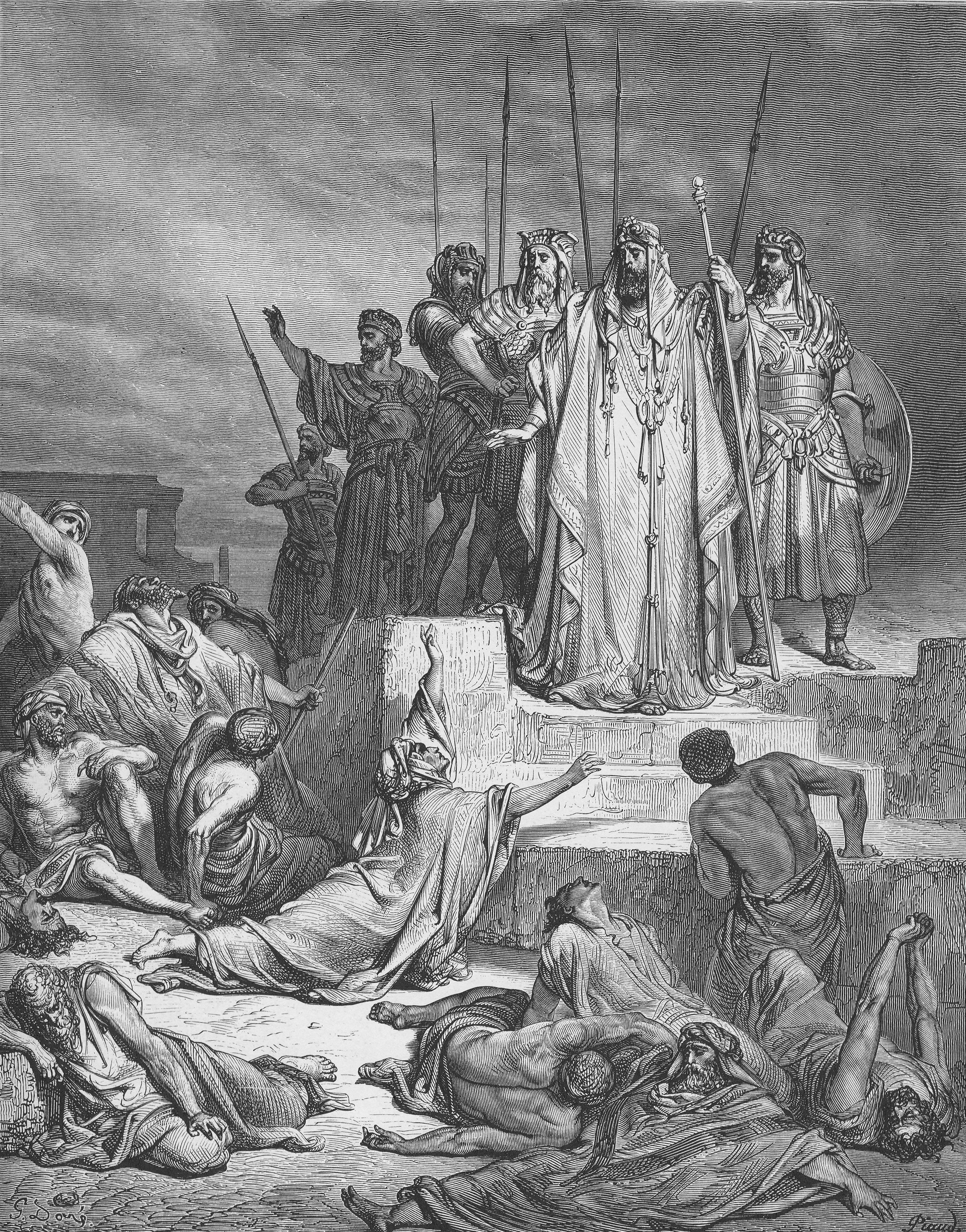 A Famine in Samaria (2Kings 6:18-30)